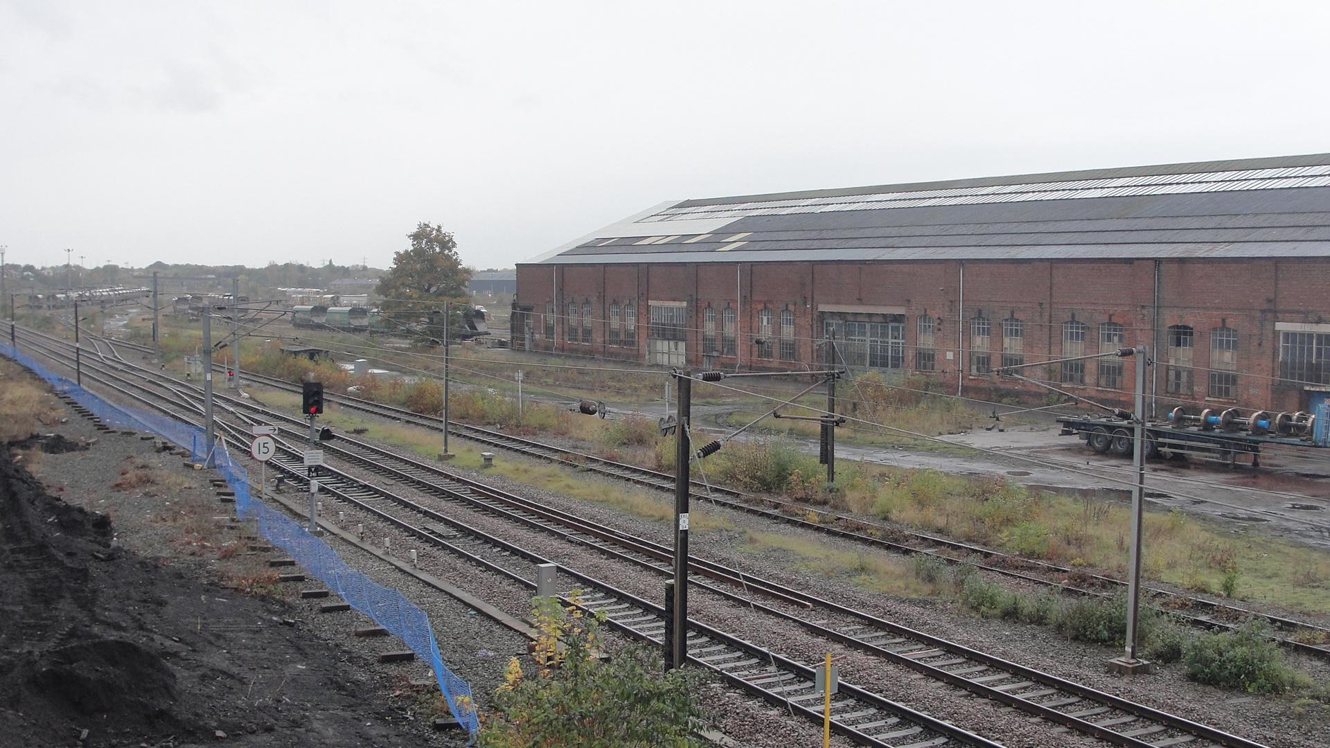 York avoiding lines are in the foreground. The Wagon Works are run by Freghtliner Group